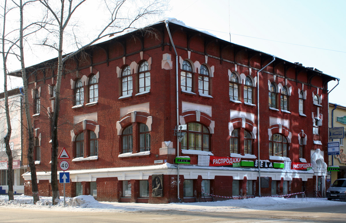 Здание бывшей типографии «Сибирского товарищества печатного дела»